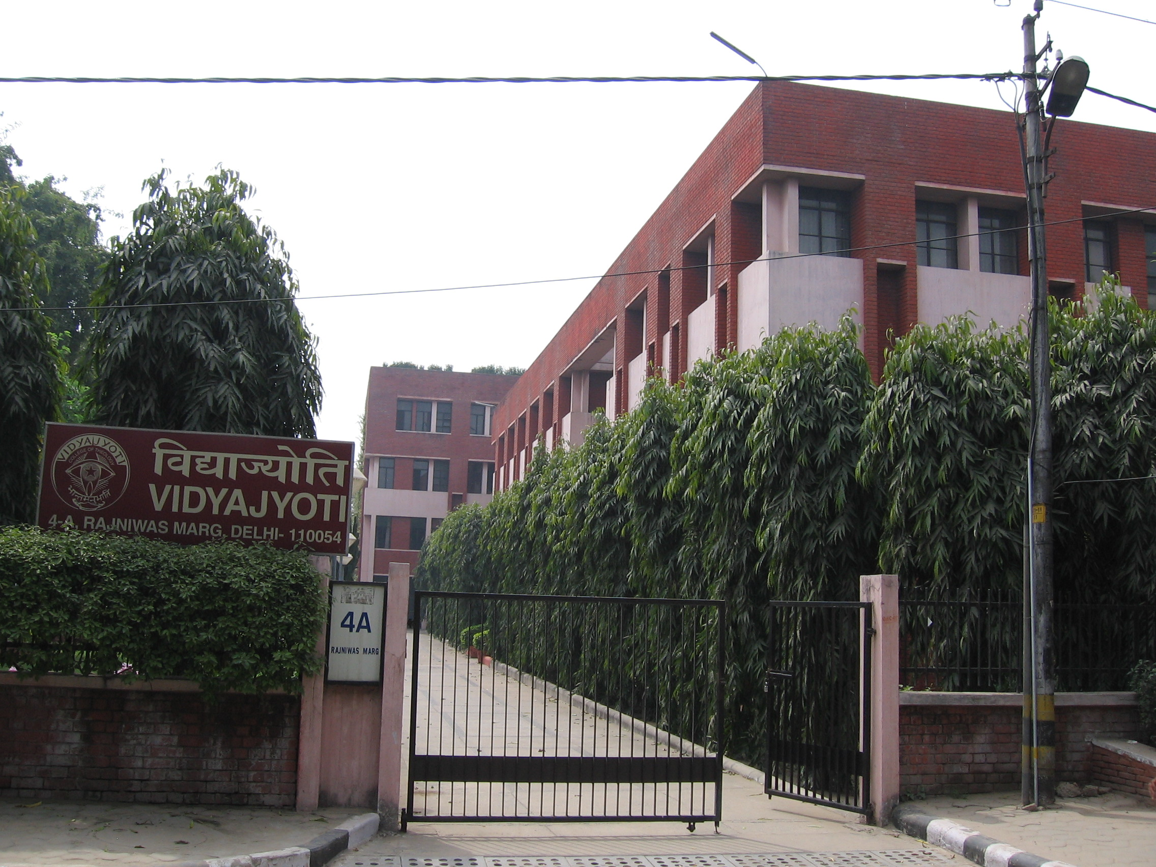 Vidyajyoti College of Theology (in Civil Lines, Delhi) is a major Jesuit theological college in India.